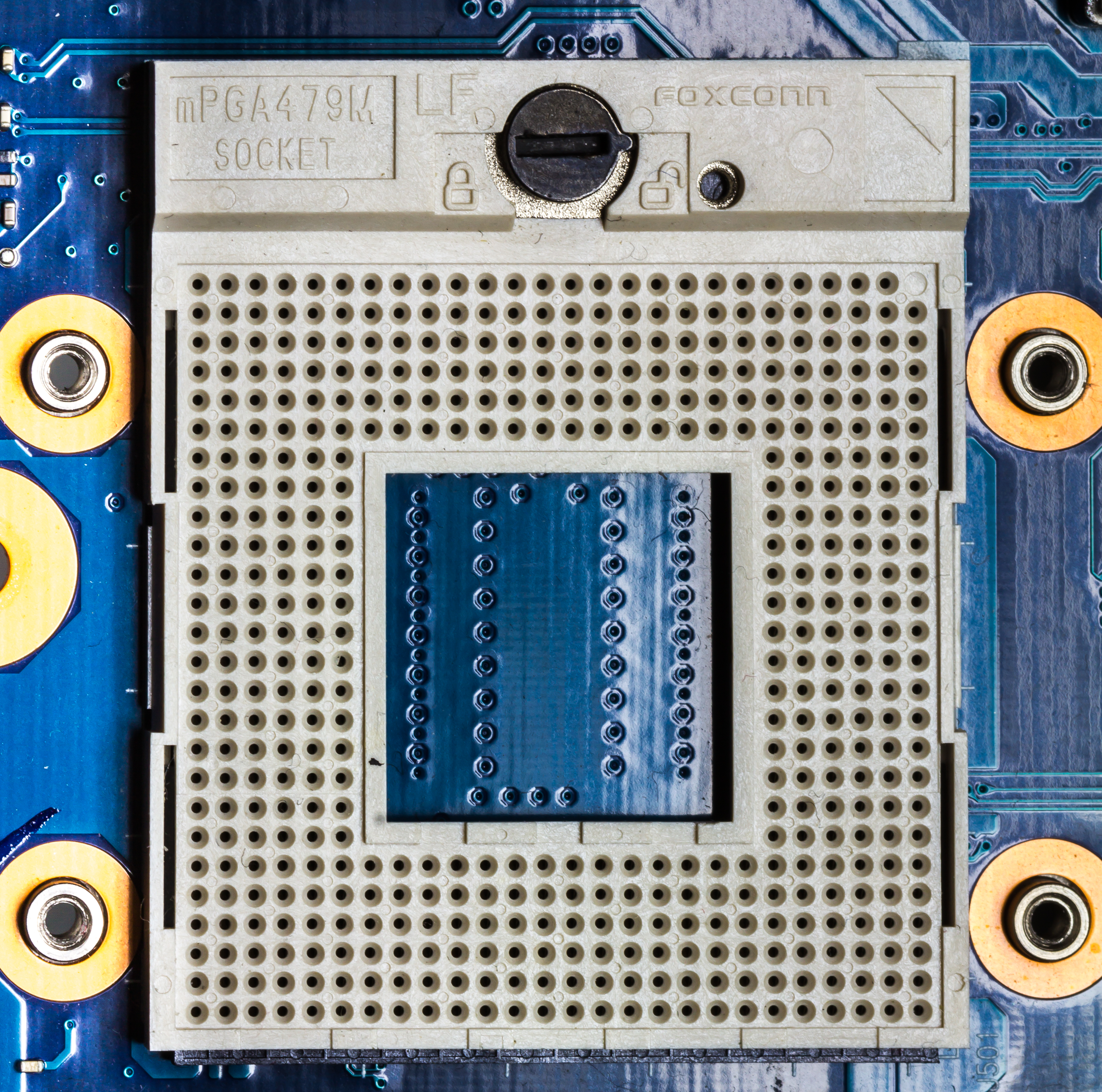 Socket mPGA479M, made by Foxconn